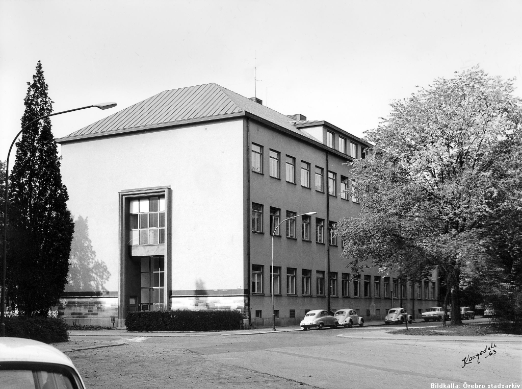 Municipal girl's school, Örebro, Sweden